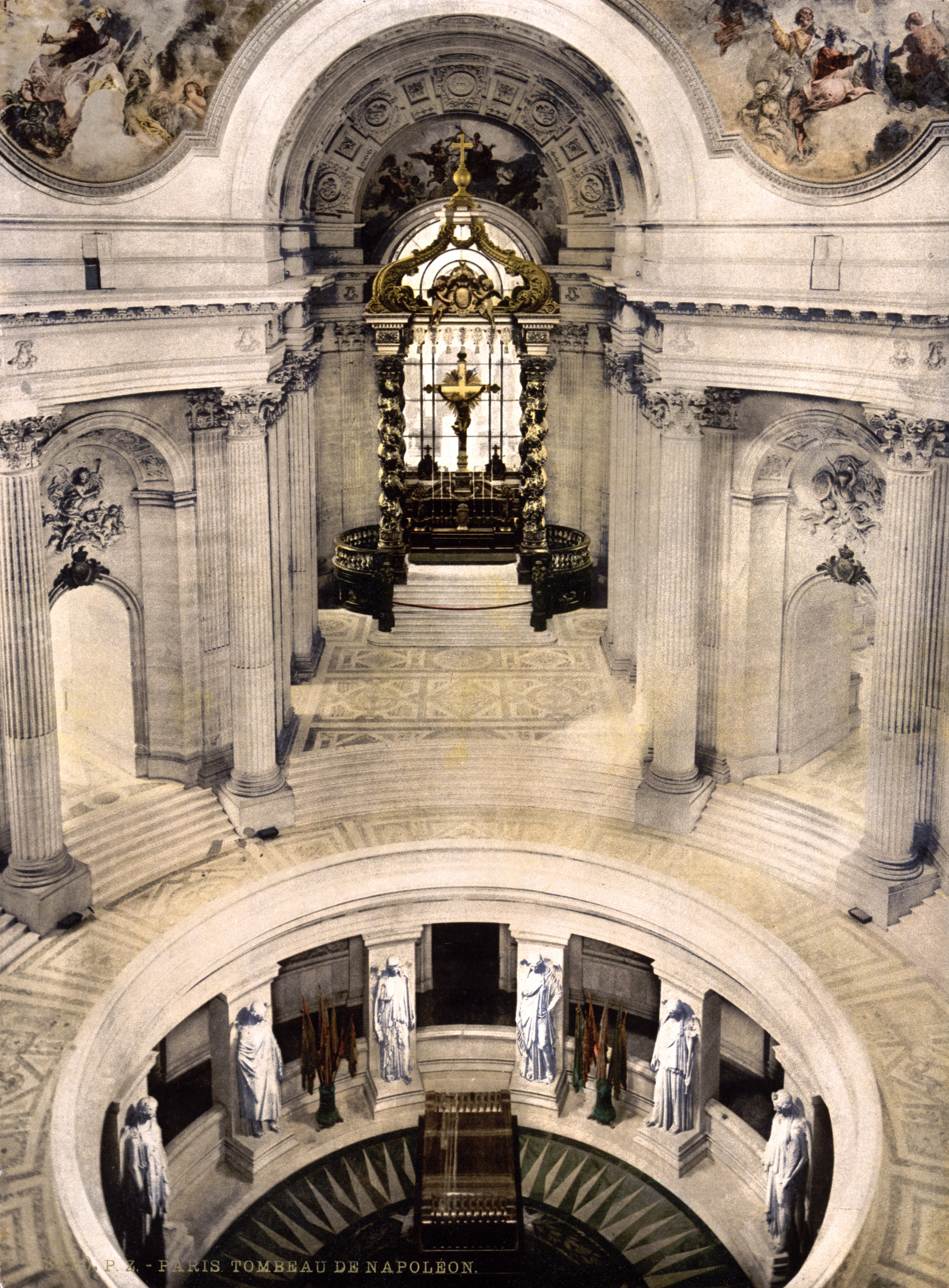 Napoleon's tomb, Paris, France.